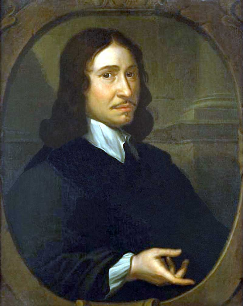 Florentius Schuyl (1619-1669) Dutch physician and botanist